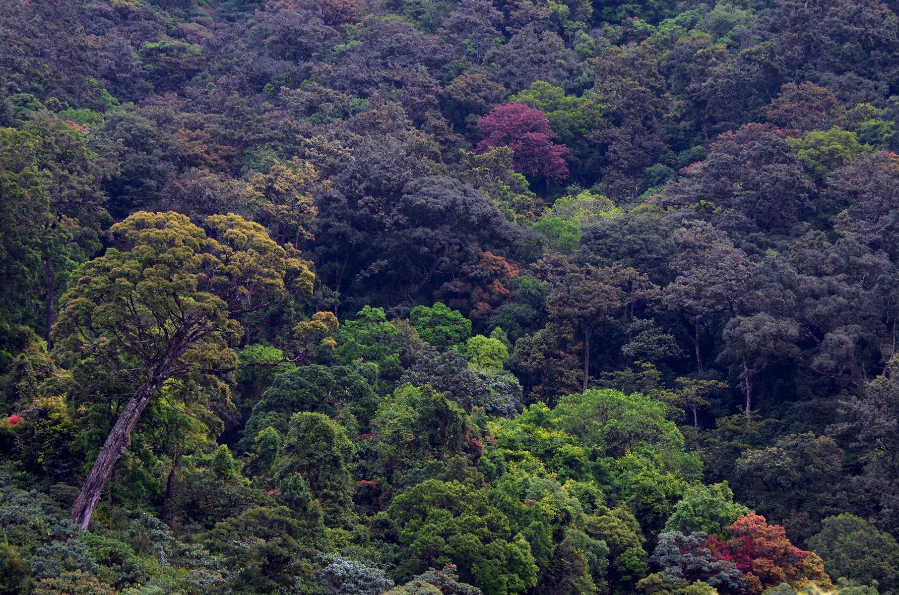 Canopy of tropical rain forest in Anaimalai hills_